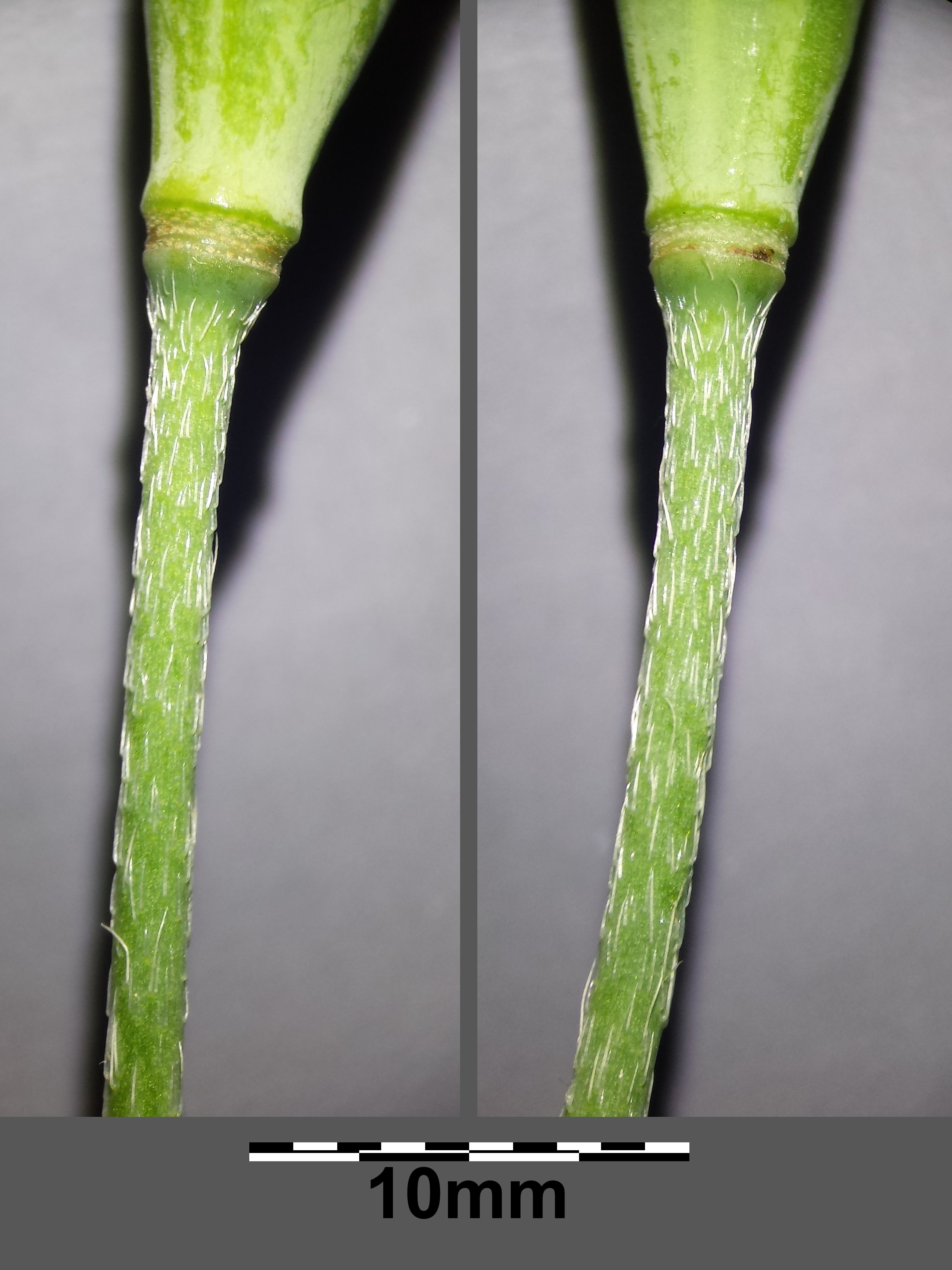 Stem below capsule with adjacent hairs Taxonym: Papaver dubium subsp. dubium ss Fischer et al. EfÖLS 2008 ISBN 978-3-85474-187-9 Location: next to Stockerau, district Korneuburg, Lower Austria - ca. 170 m a.s.l. Habitat: dam